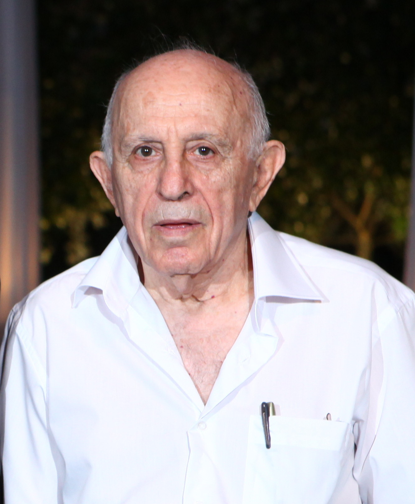 יעקב חרותי בחתונת נכדו בקיץ 2012